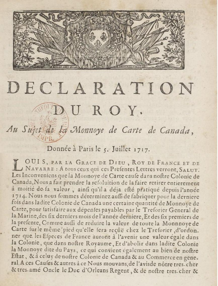 Déclaration du roi 5 juillet 1717 au sujet de la monnoye de carte de Canada : Louis XV of France [i.e. the Régent Philippe d'Orléans] decides to cut down [50 %] the value of card money in Canada. Legal document printed in Paris by Vve [widow] Saugrain et P. Prault in july 1717.